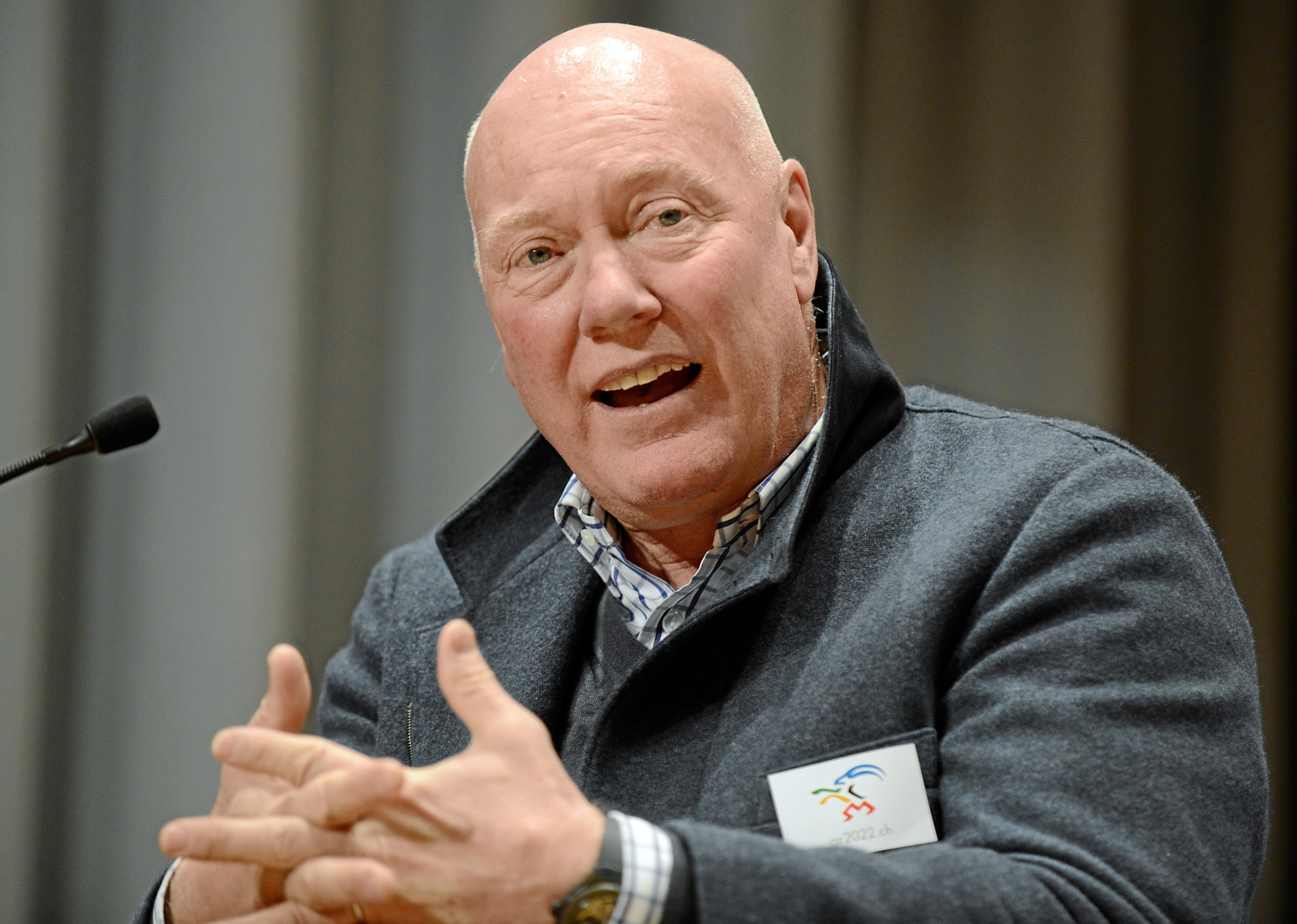 DAVOS/SWITZERLAND, 24JAN13 - Jean-Claude Biver President and Chairman of the Board Hublot SA, Switzerland gestures during the interactive session 'Open forum: Mega Sporting Events - In Whose Interest?' at the Annual Meeting 2013 of the World Economic Forum at the Swiss alpine high school in Davos, Switzerland, January 24, 2013.. . Copyright by World Economic Forum. . Michael Wuertenberg